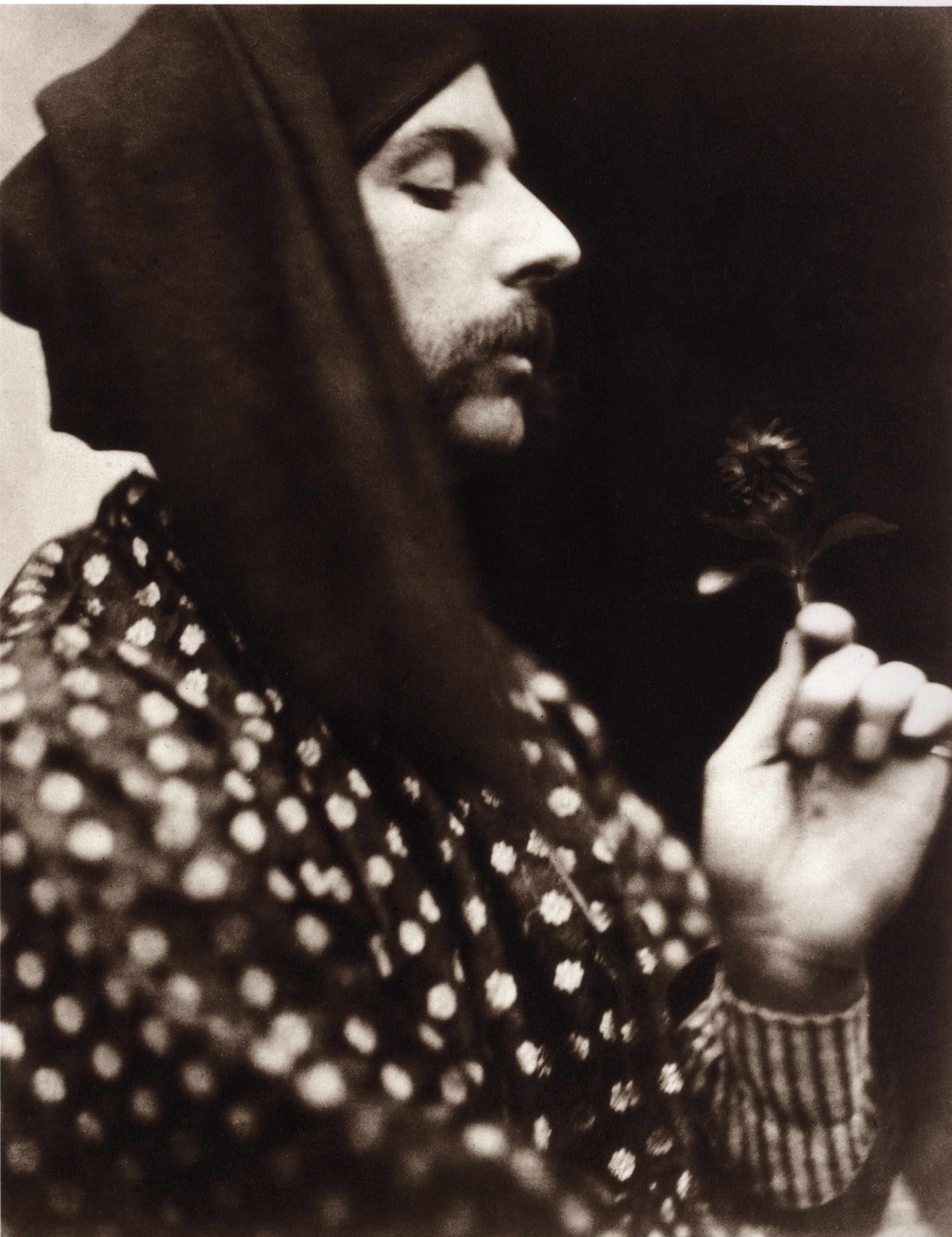 Portrait of William Swinden Barber He was architect of the Church of St Michael and All Angels, Beckwithshaw, built 1886. He was a member of the Artists Rifles regiment.